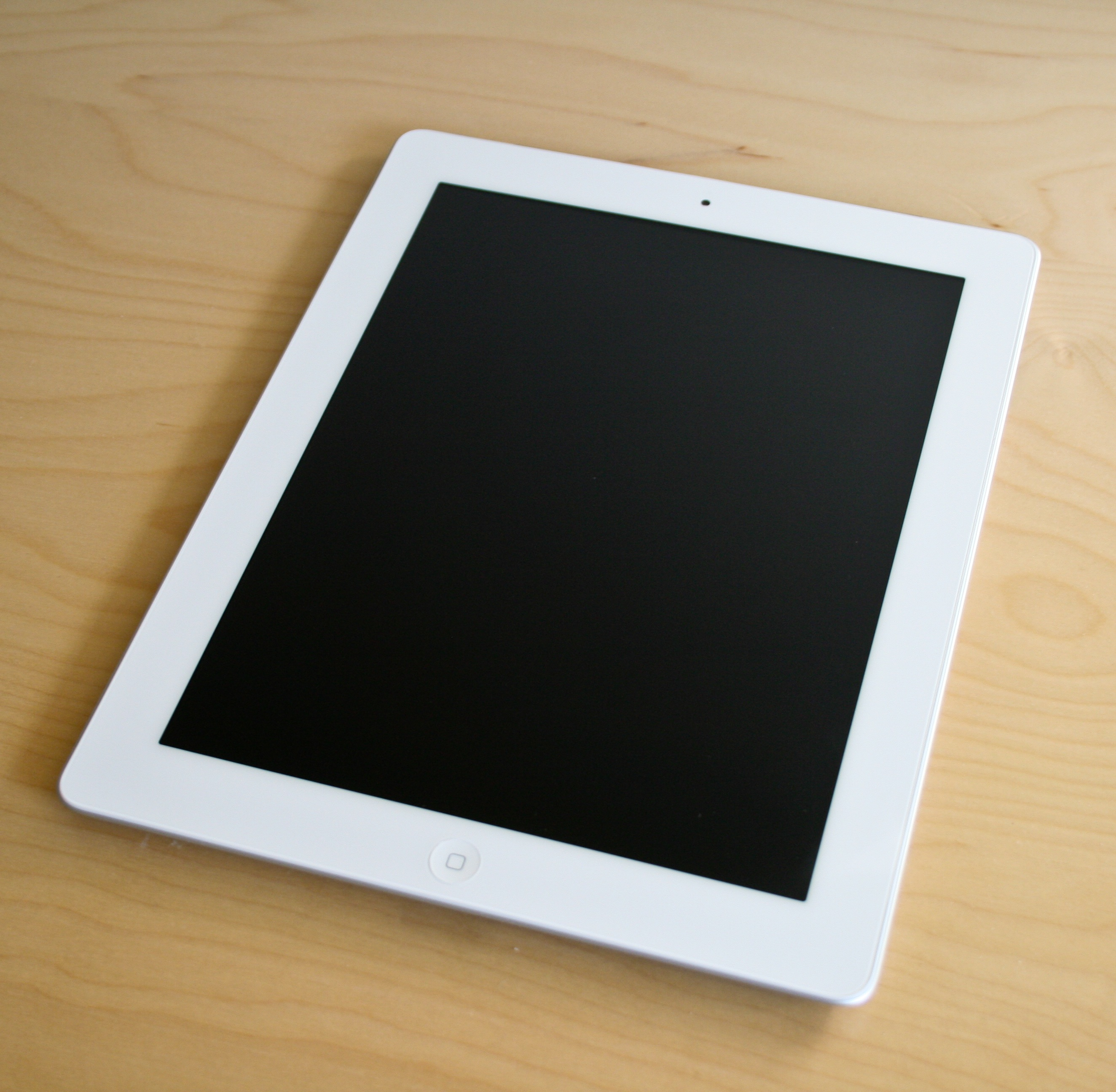 A picture of a white iPad 2 on a table.